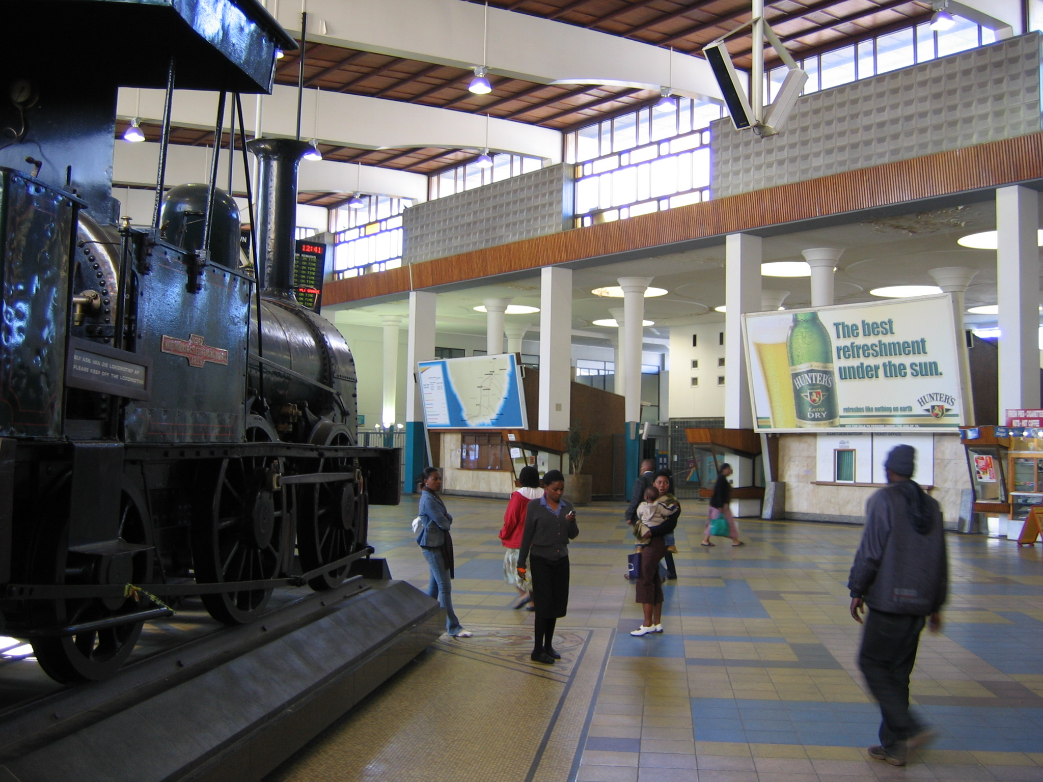 Interior of the Cape Town main train station, South Africa.